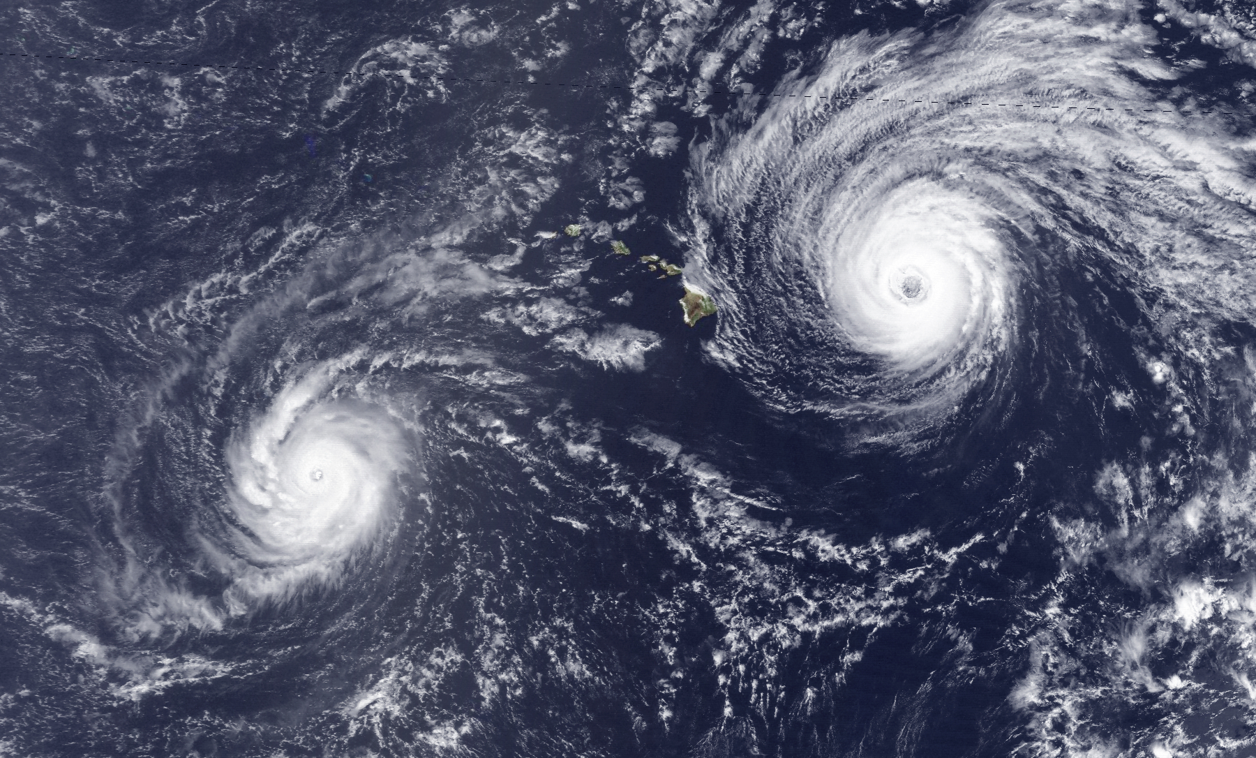 Hurricanes Keoni (left) and Fernanda (right) near Hawaii (center) on August 15, 1993 at 22:01 UTC. At the time, both Keoni and Fernanda were virtually identical in strength, which each estimated as having winds of 90 knots, making them Category 2 hurricanes. Fernanda would eventually weaken as it curved north, while Keoni continued strengthening as it tracked northwestward into the West Pacific.